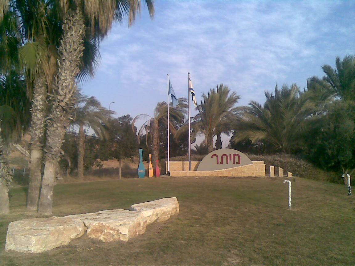 Meitar